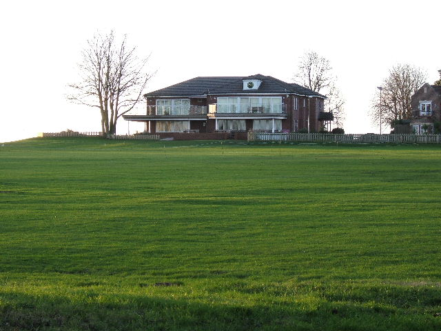 Chester Boughton Hall Cricket Club Lying between the Christleton Road to the south, and the Shropshire Union Canal to the north.